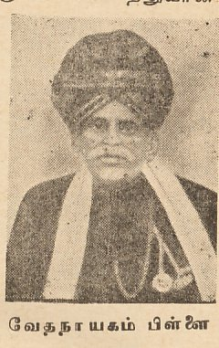 Samuel Vedanayagam Pillai (1826-1889), a Tamil poet of the 19th century